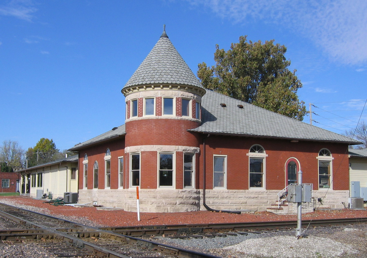 Restored Rock Island Line station in Grinnell, built in 1892. Now a restaurant.